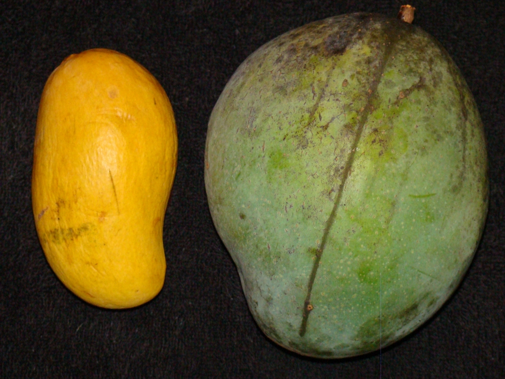 A ripe Keitt mango (Mangifera indica / Anacardiaceae) from the Ghosh Grove, Rockledge, Florida is compared with a store-bought Ataulfo mango (left), grown in Mexico.